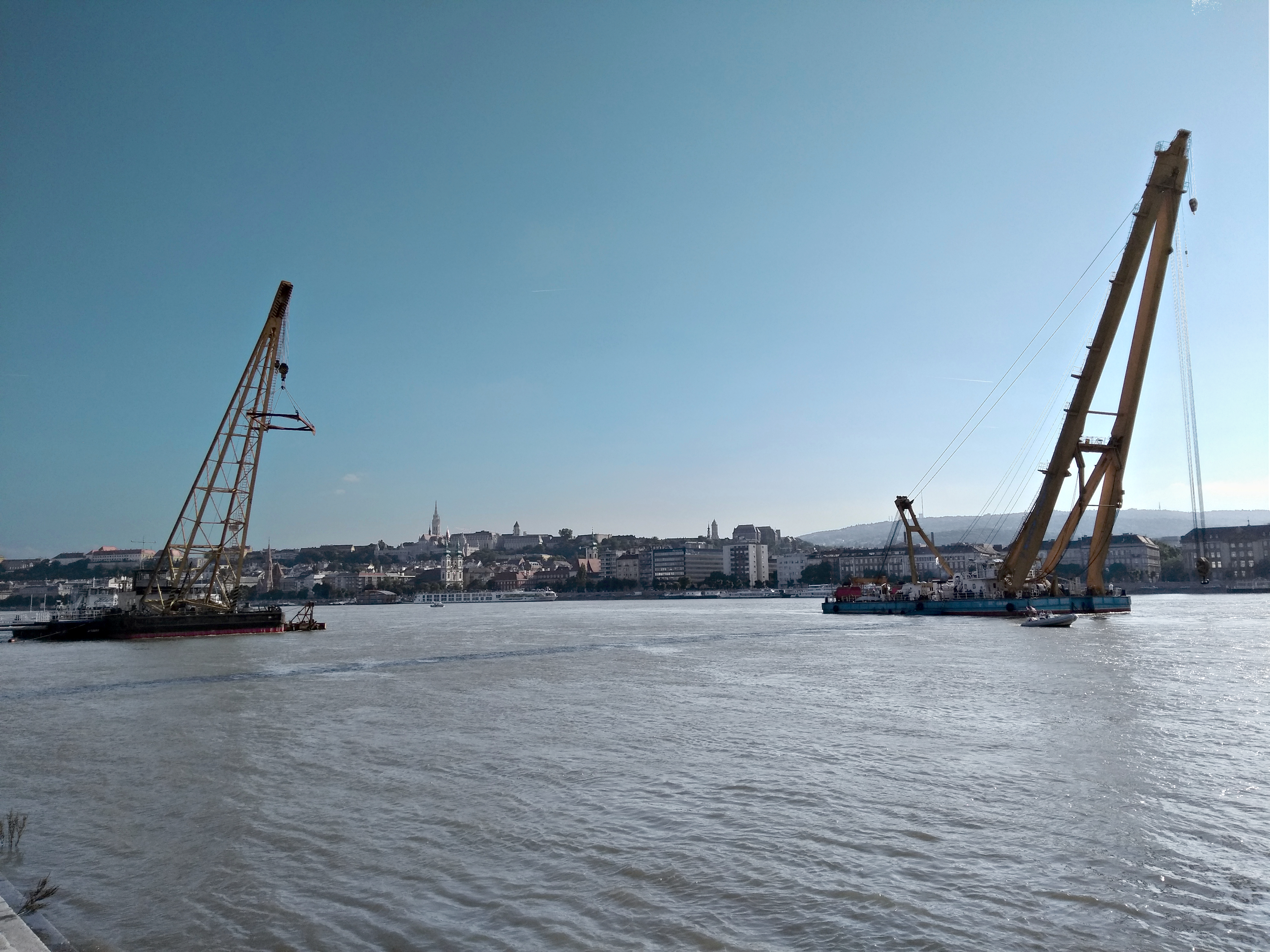 Crane vessels Táncsics Mihály and Clark Ádám on the Danube, south of Margaret Bridge, during the raising of the sunk Hableány.